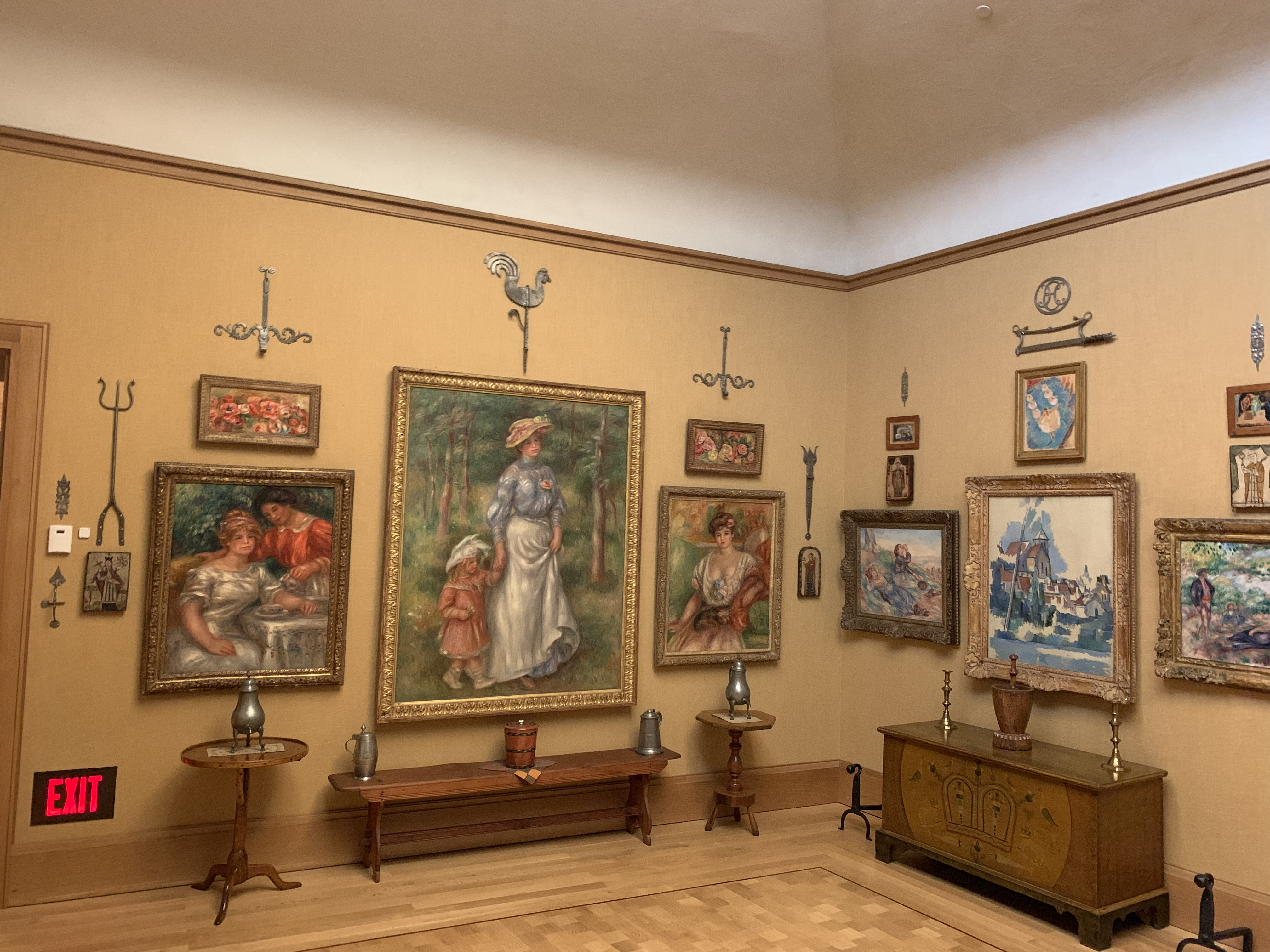 The Barnes Foundation. Part of gallery interior.